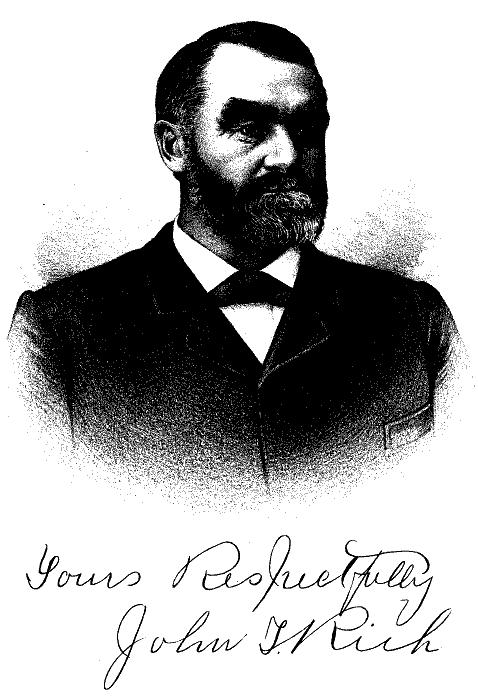 "s.v. Hon. John T. Rich". Portrait and biographical record of Genesee, Lapeer and Tuscola counties, Michigan. Ann Arbor, Mich.: University of Michigan Library. 2005 [1892]. p. 214. Retrieved 2007-03-11.